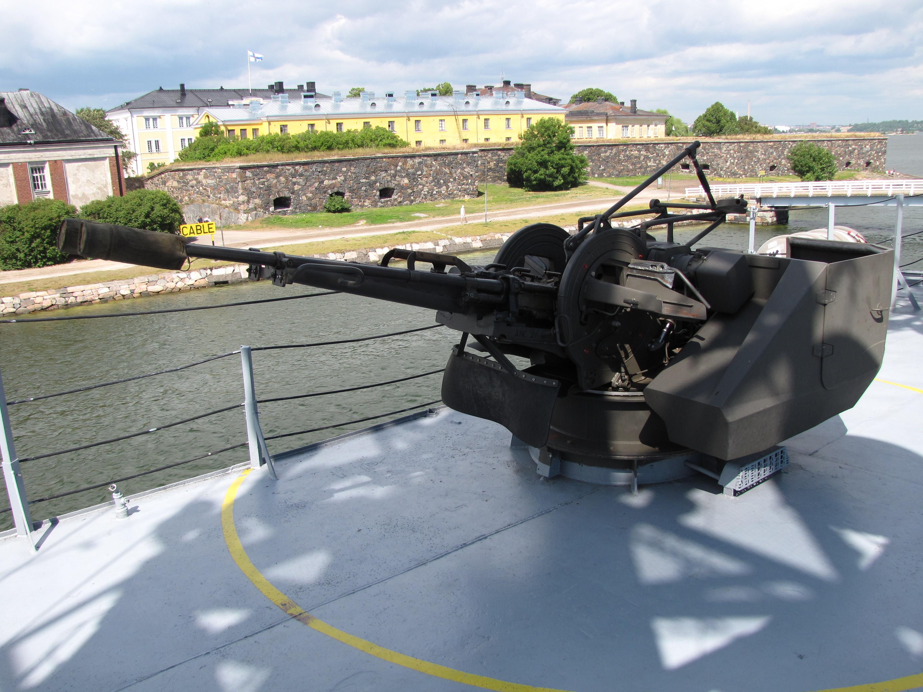 Finnish minelayer Pohjanmaa (01) upper deck starboard 23 mm anti-aircraft gun. This is propably M77 version later upgraded.